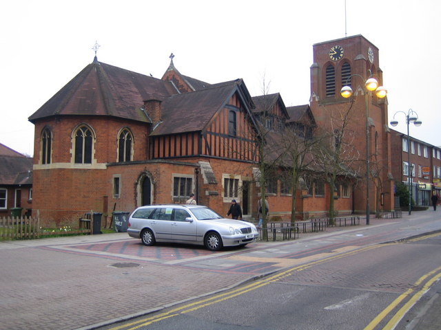 All Saints' parish church, Shenley Road, Borehamwood, Hertfordshire, seen from the north